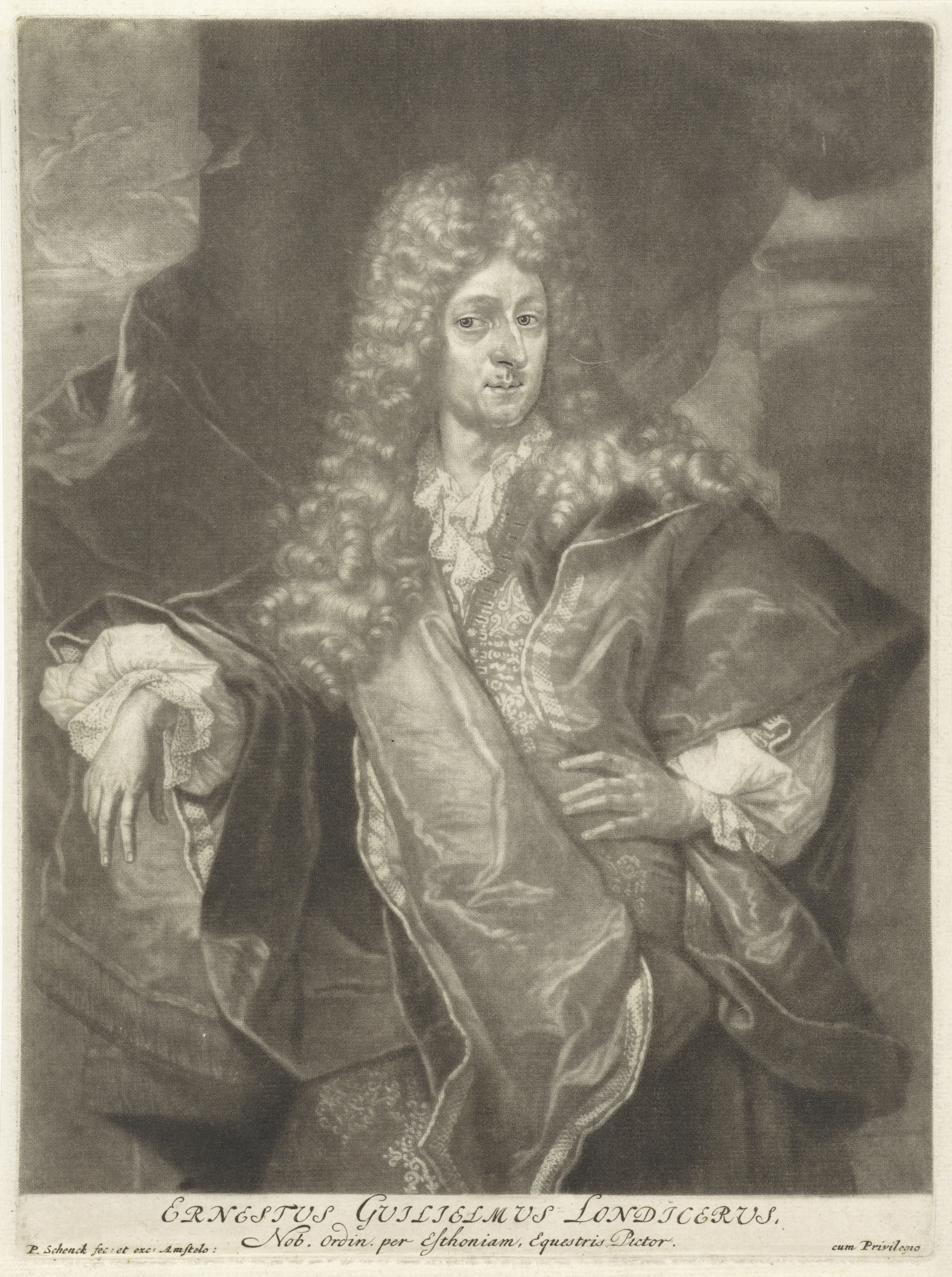 Portrait of Ernst Wilhelm Londicer by Pieter Schenk (I), 1670 - 1713 engraving, h 248mm × w 183mm